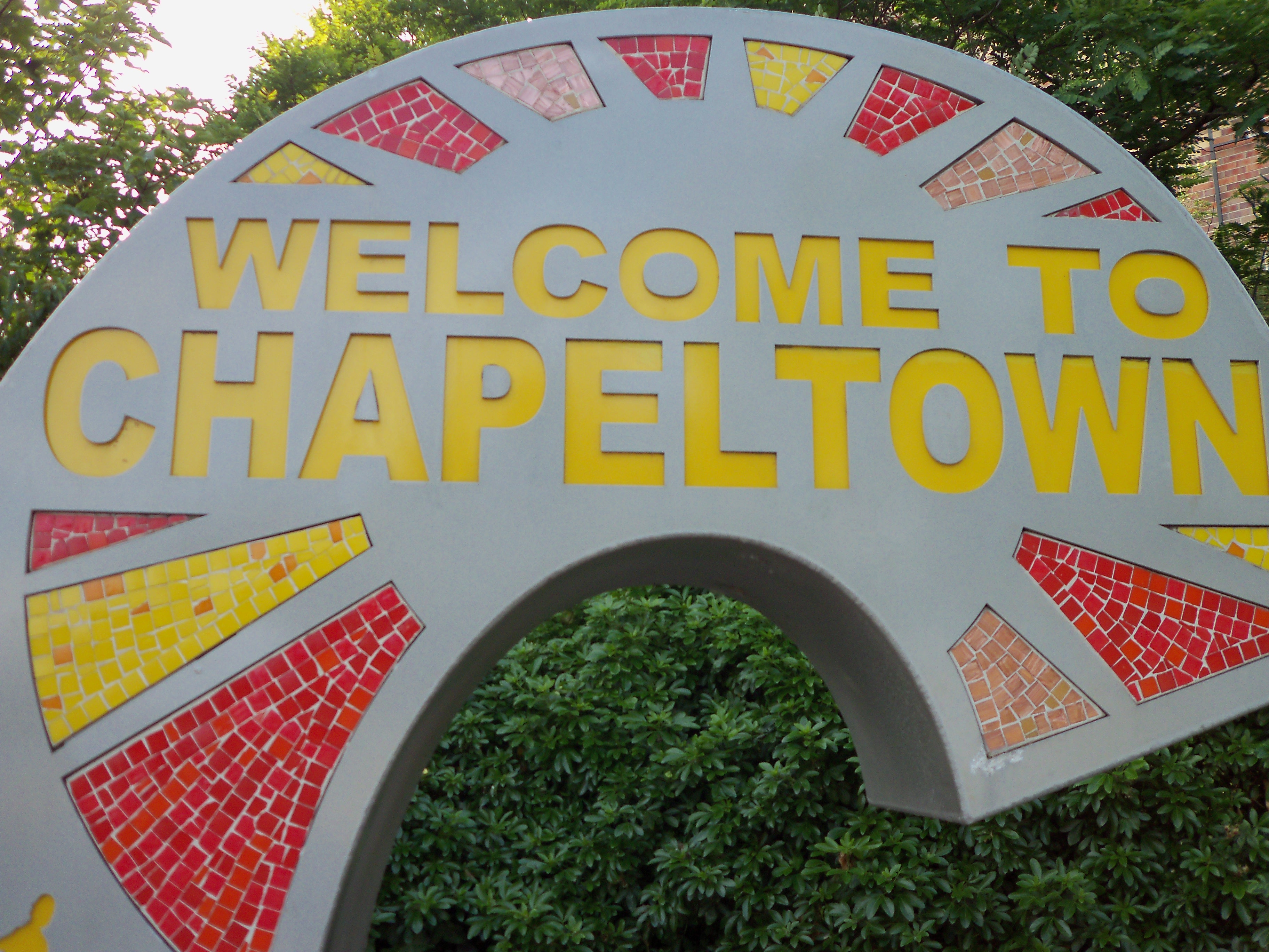 Iconic Welcome to Chapeltown, C for Chapeltown, on Chapeltown Road. artwork by Alan Pergusey.